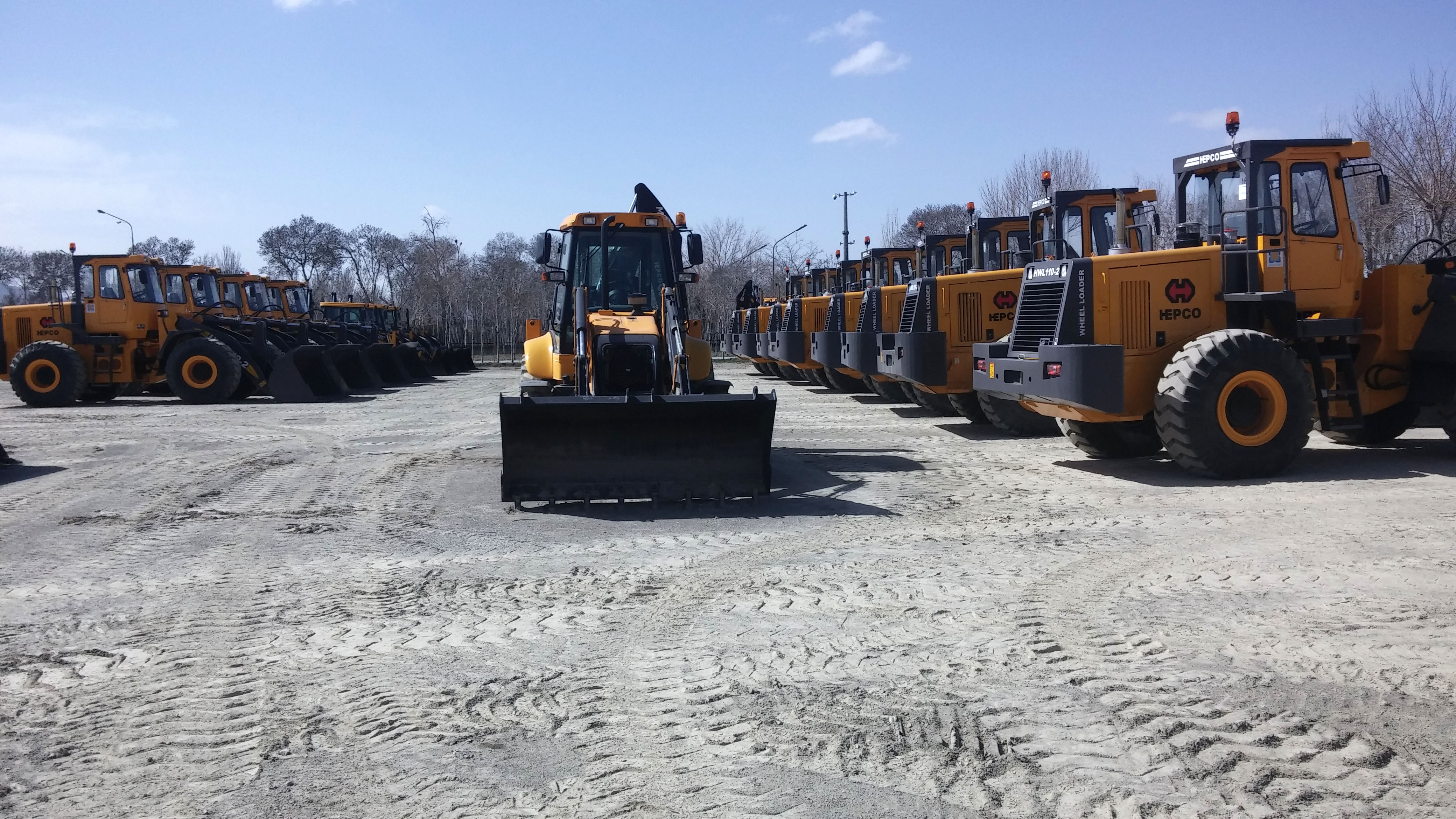 HEPCO HWL 110-2 wheel loaders and a MST backhoe loader.